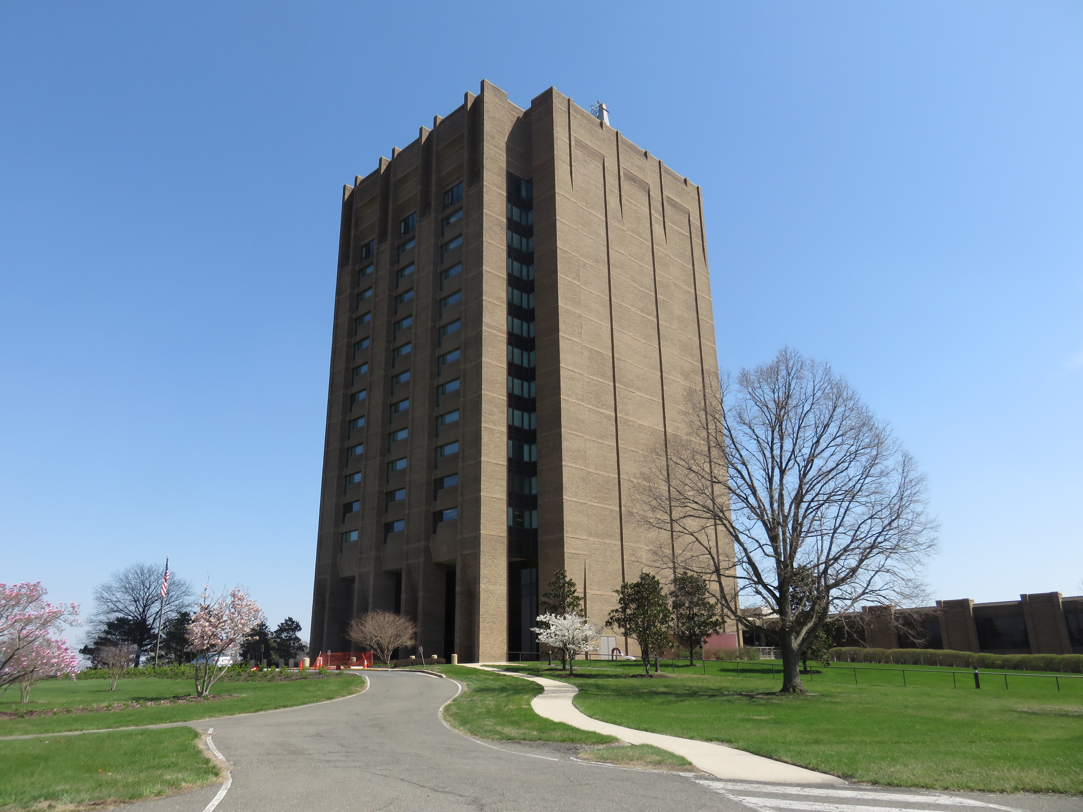 Exterior of the United States National Agricultural Library in 2018